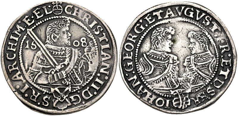 GERMANY, Sachsen-Albertinische Linie (Kurfürstentum und Herzogtum). Christian II, with Johann Georg & August. 1591-1611. AR Halbtaler (34.5mm, 12.85 g, 9h). Dresden mint; Heinrich von Rehnen, mintmaster. Dated 1608 HVR. Armored bust of Christian right, holding sword over shoulder; plument helmet before / Confronted armored busts of Johan Georg and August. K&K 247; KM 14. VF, toned.